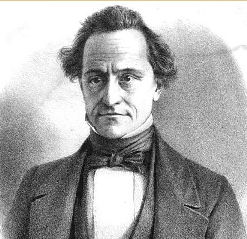 Benjamin Franklin Butler, U.S. Attorney General.